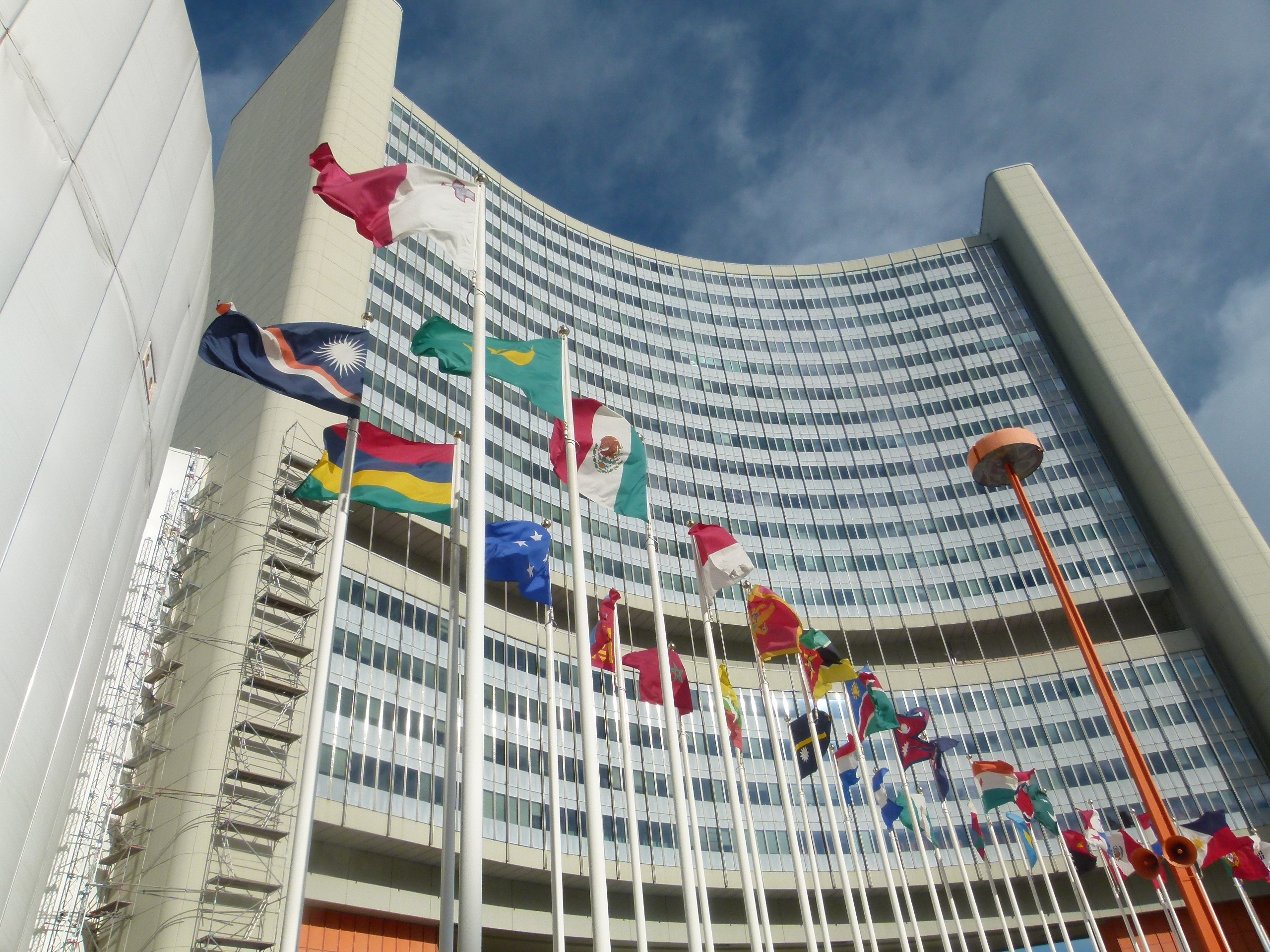 Vienna International Centre - UNO city